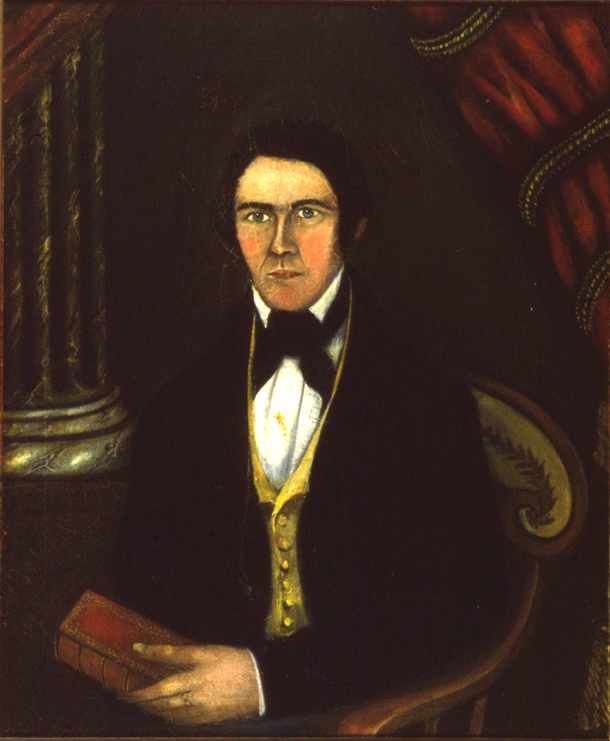 Nathaniel Chipman of Tinmouth, Vermont. US Senator, federal judge, chief justice of the Vermont Supreme Court